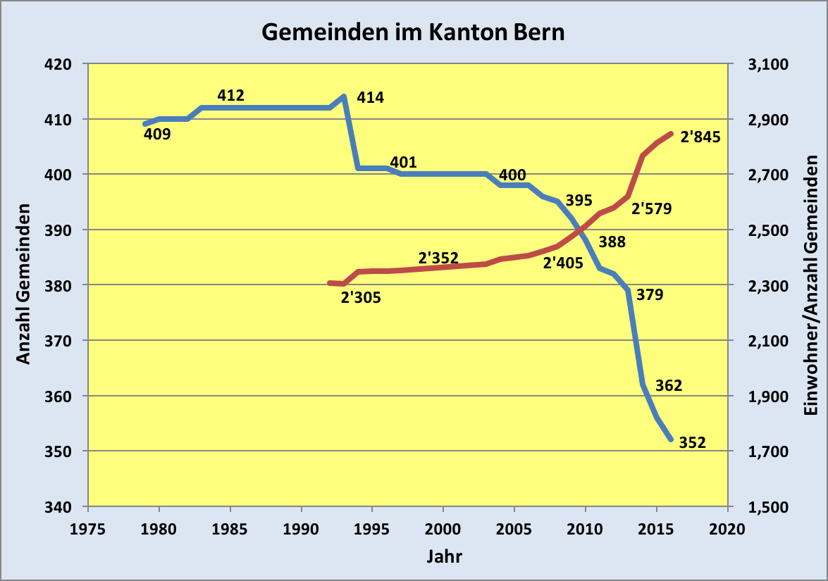 The development of the municipalities of the Canton of Bern since the secession of the Canton of Jura in 1979 until January 1, 2012.